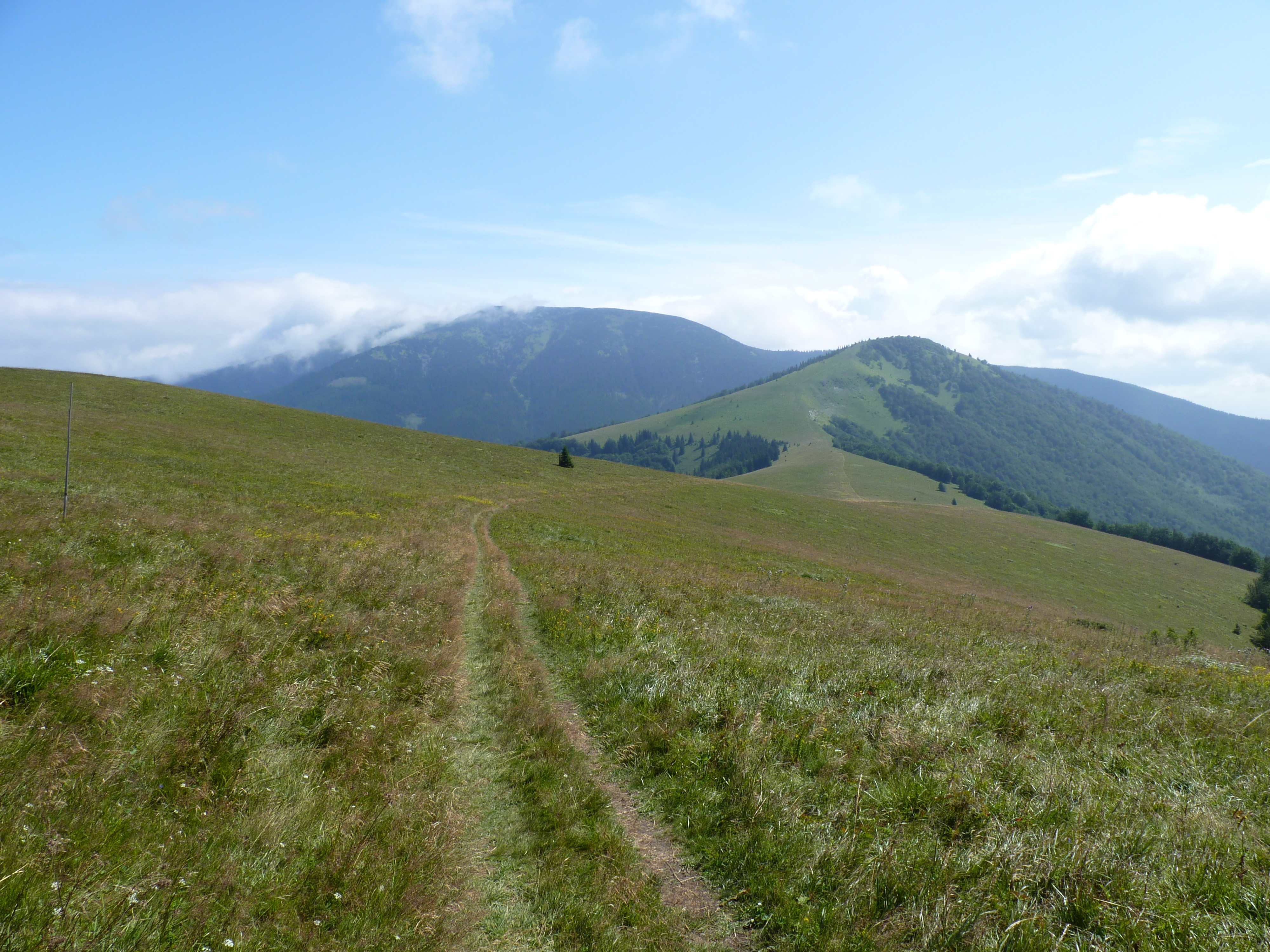 Low Tatras, Slovakia